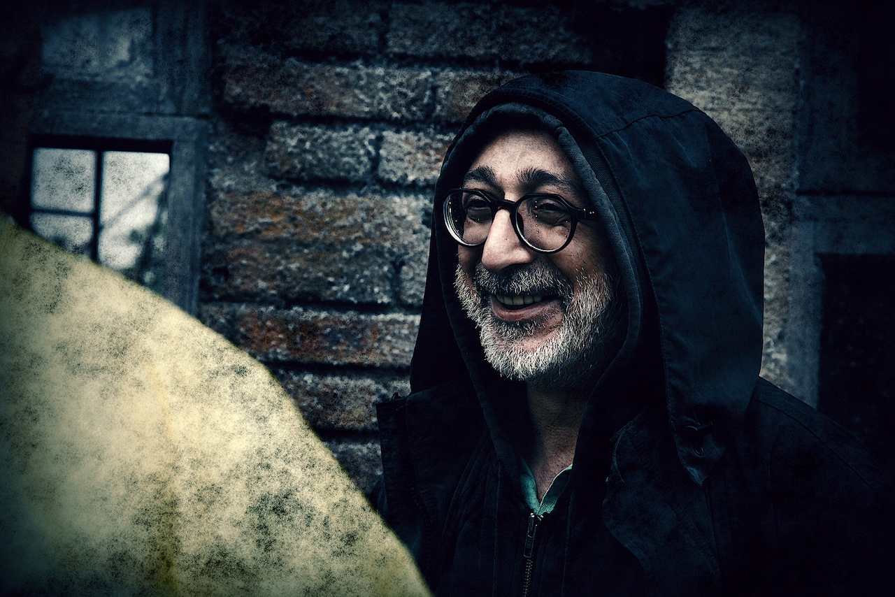 Мелькумов Сергей на съёмках фильма "Сталинград"